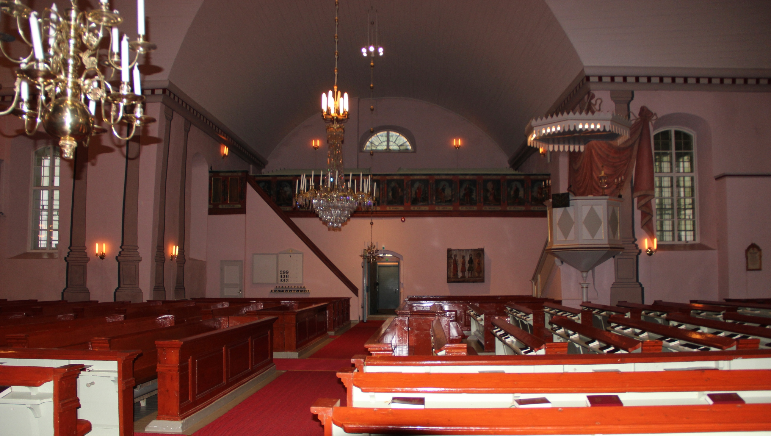 Interior of Halikko Church in Salo, Finland